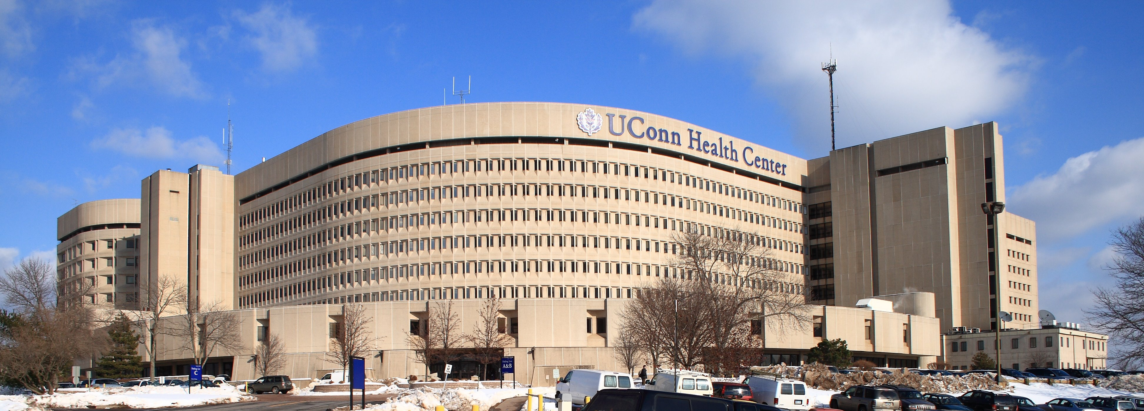 The University of Connecticut Health Center, viewed from the side of the academic entrance